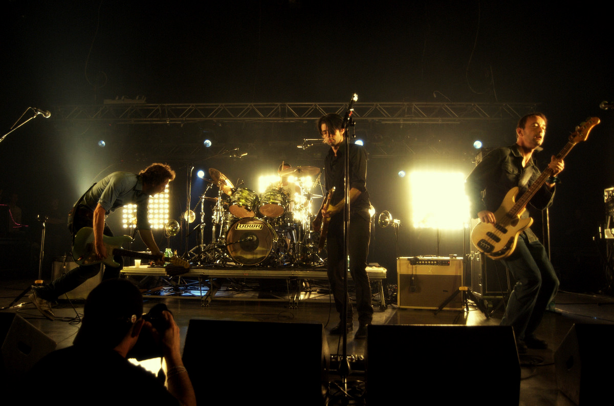 Belgian band dEUS at rolling stone in Milan (?)